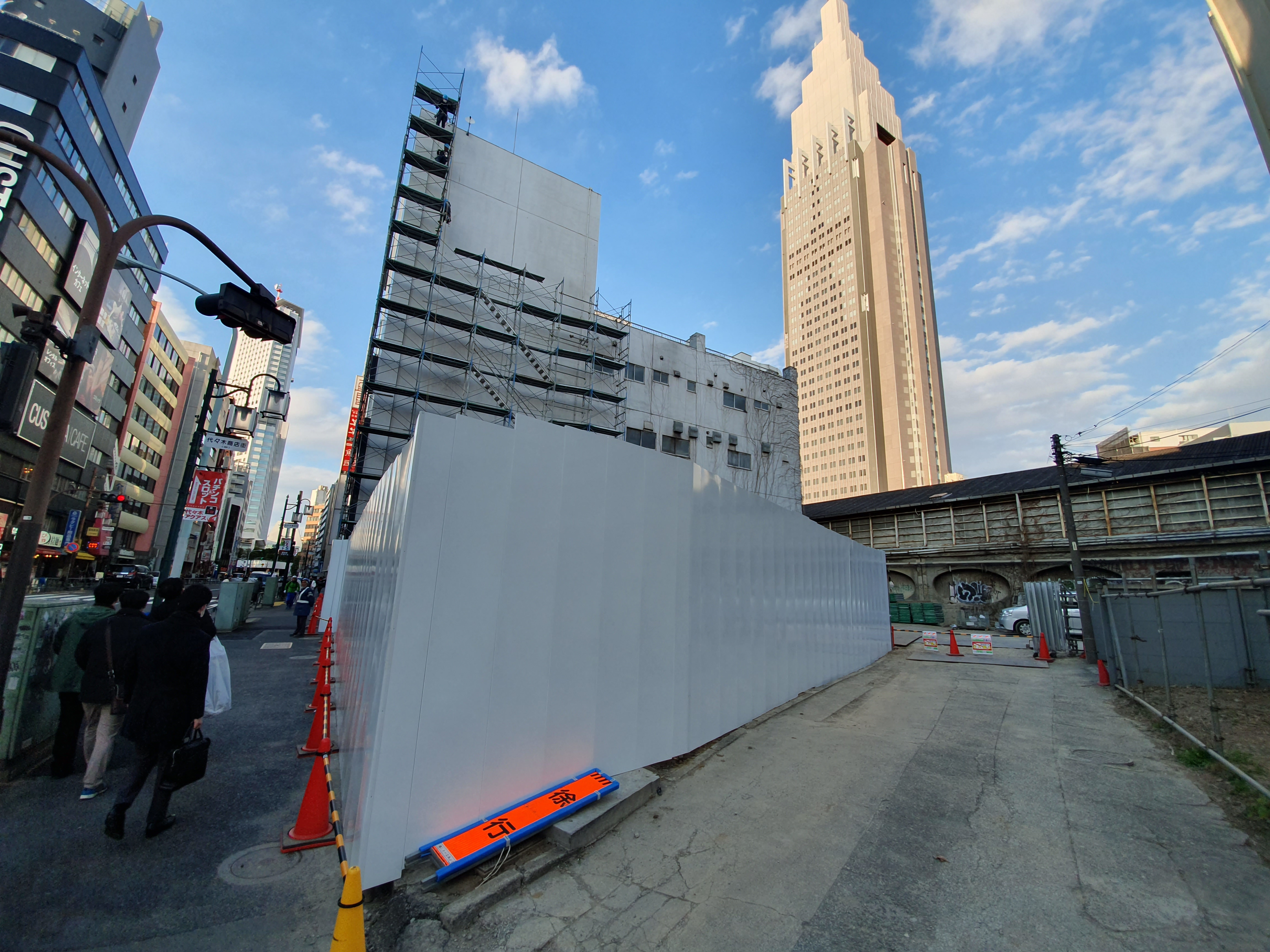 building